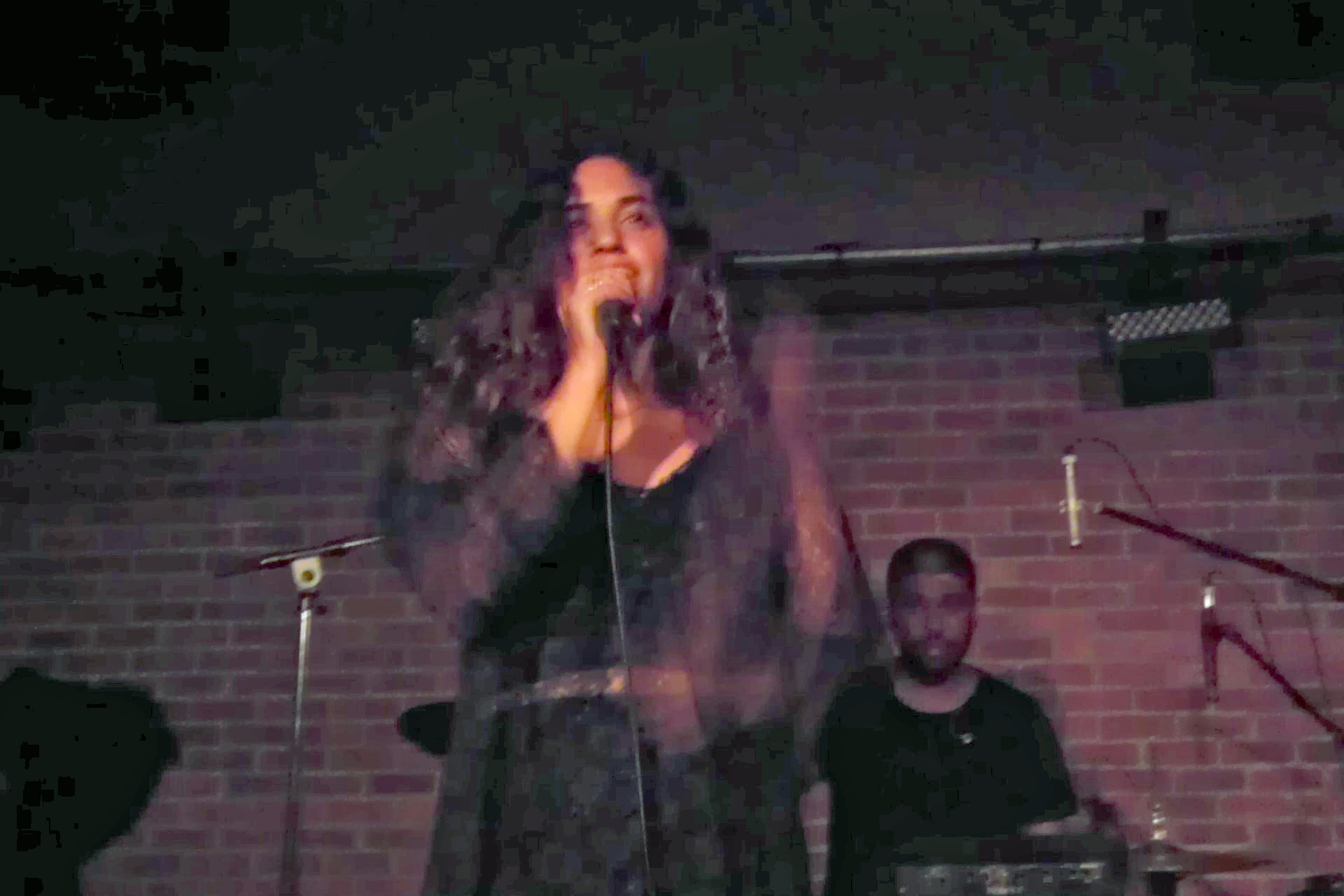 An Empress Of concert photographed in Montreal, Quebec, Canada at the Rialto Theatre.